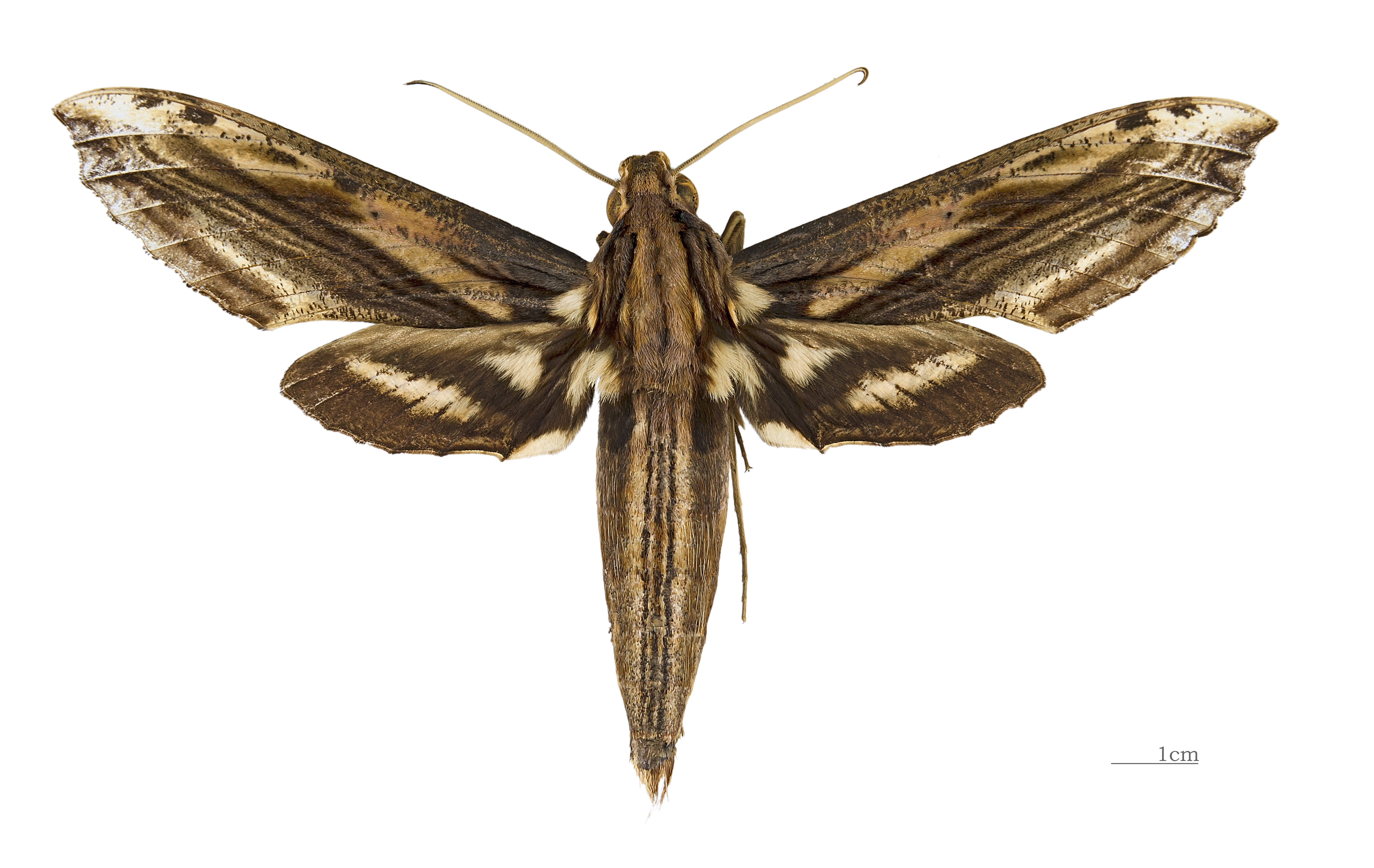 Xylophanes guianensis - Dorsal side